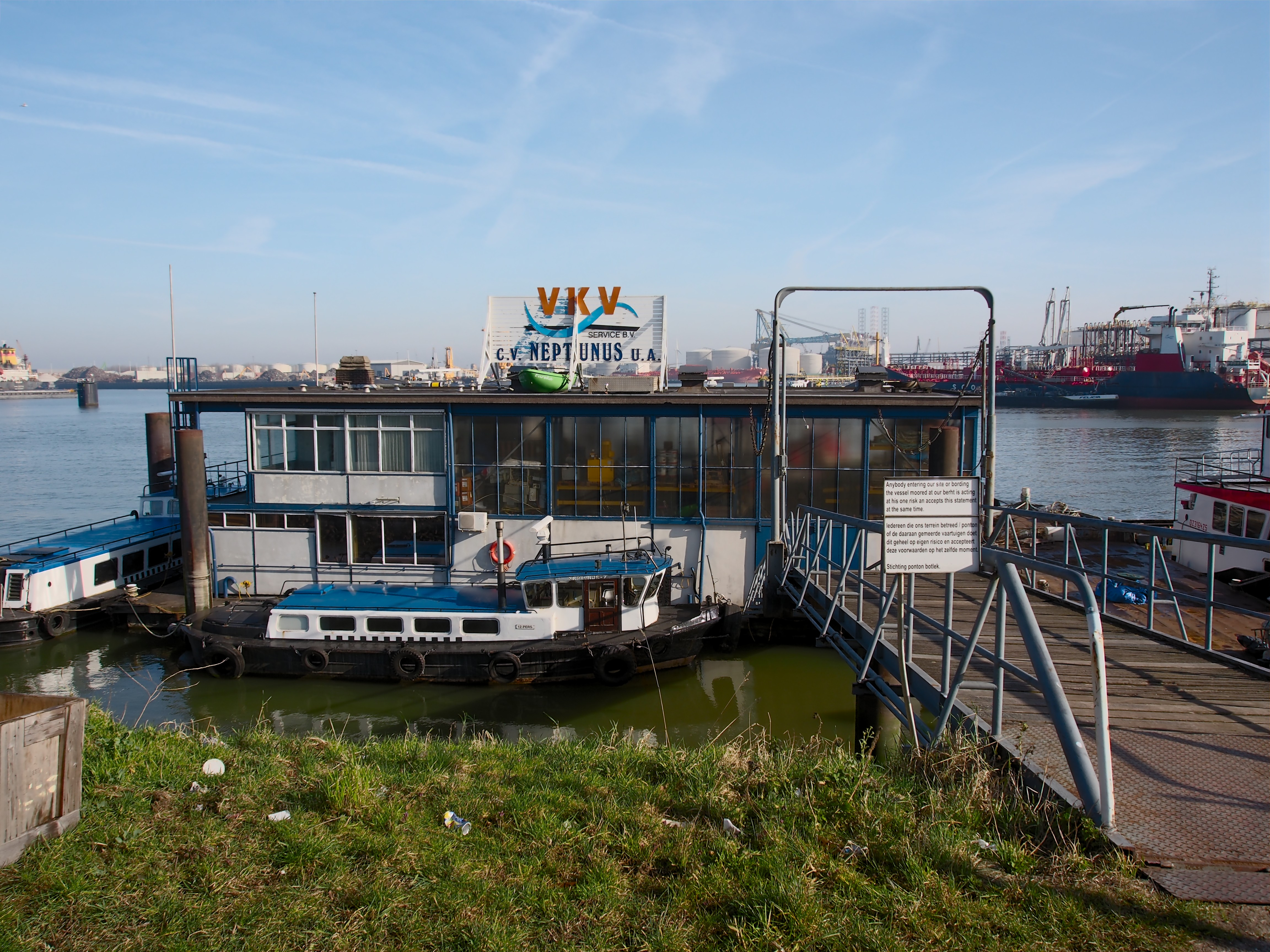 Photographed at Port of Rotterdam.